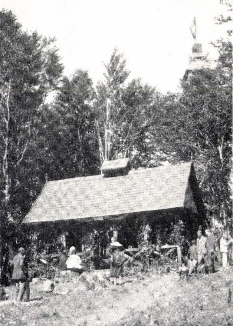 Vass József Hut on Kékes.